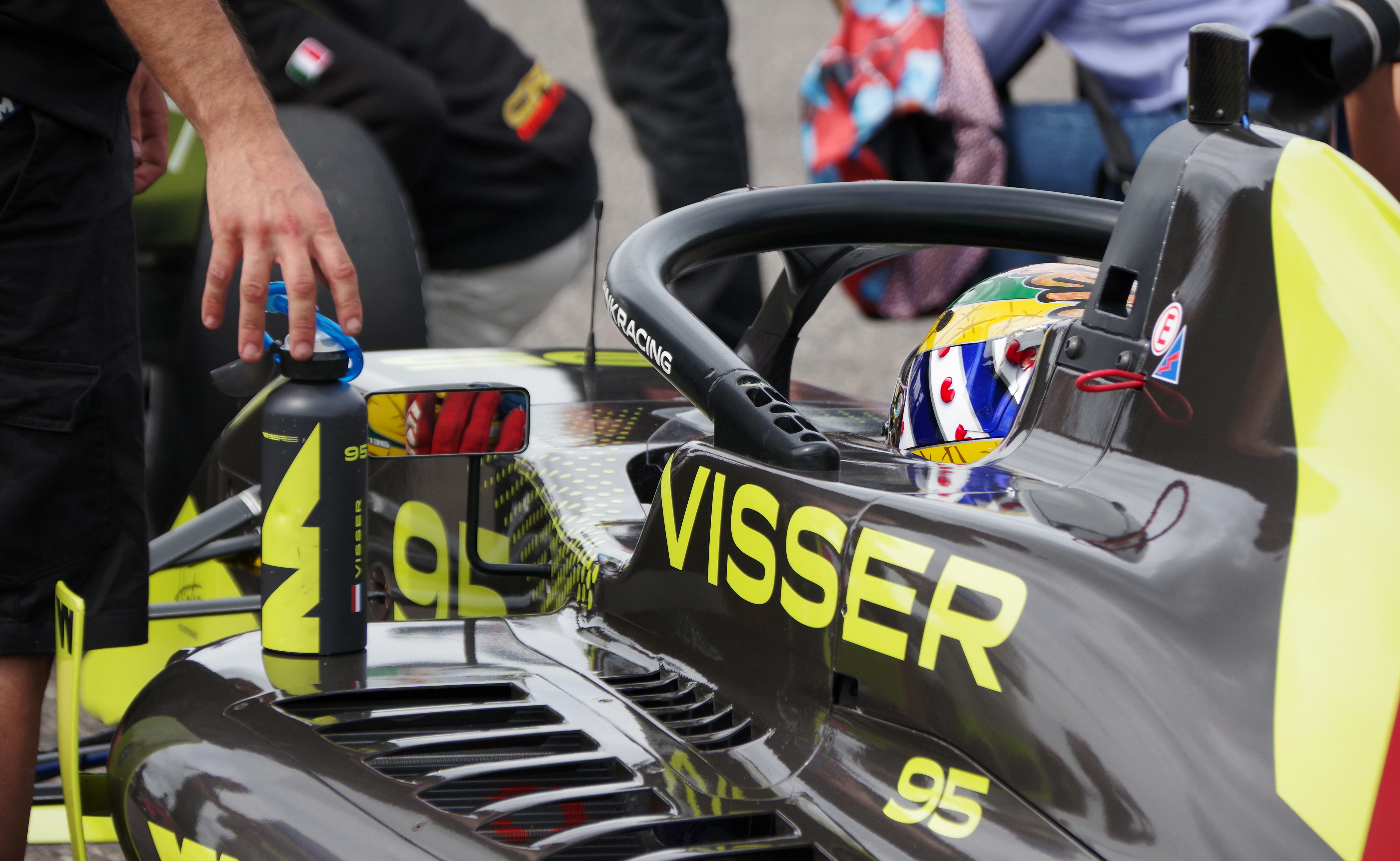 W Series cars and drivers in the paddock before the final race - Beitske Visser in her car.